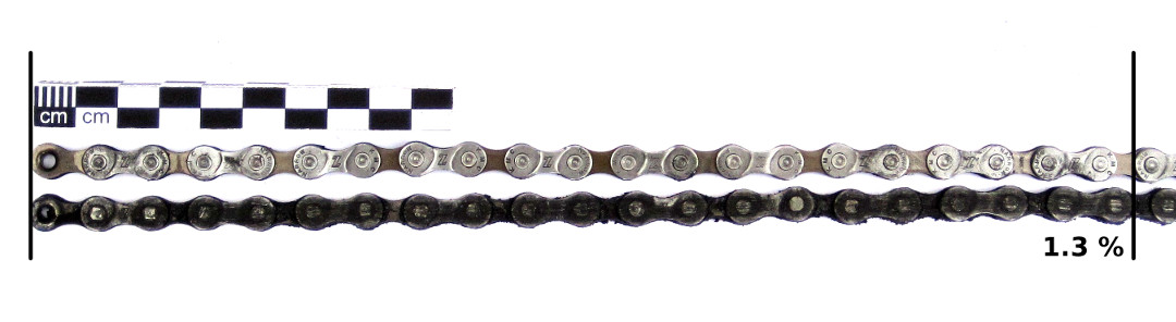 New 8 gear bicycle chain (top) and elongated chain after in use for 5000km